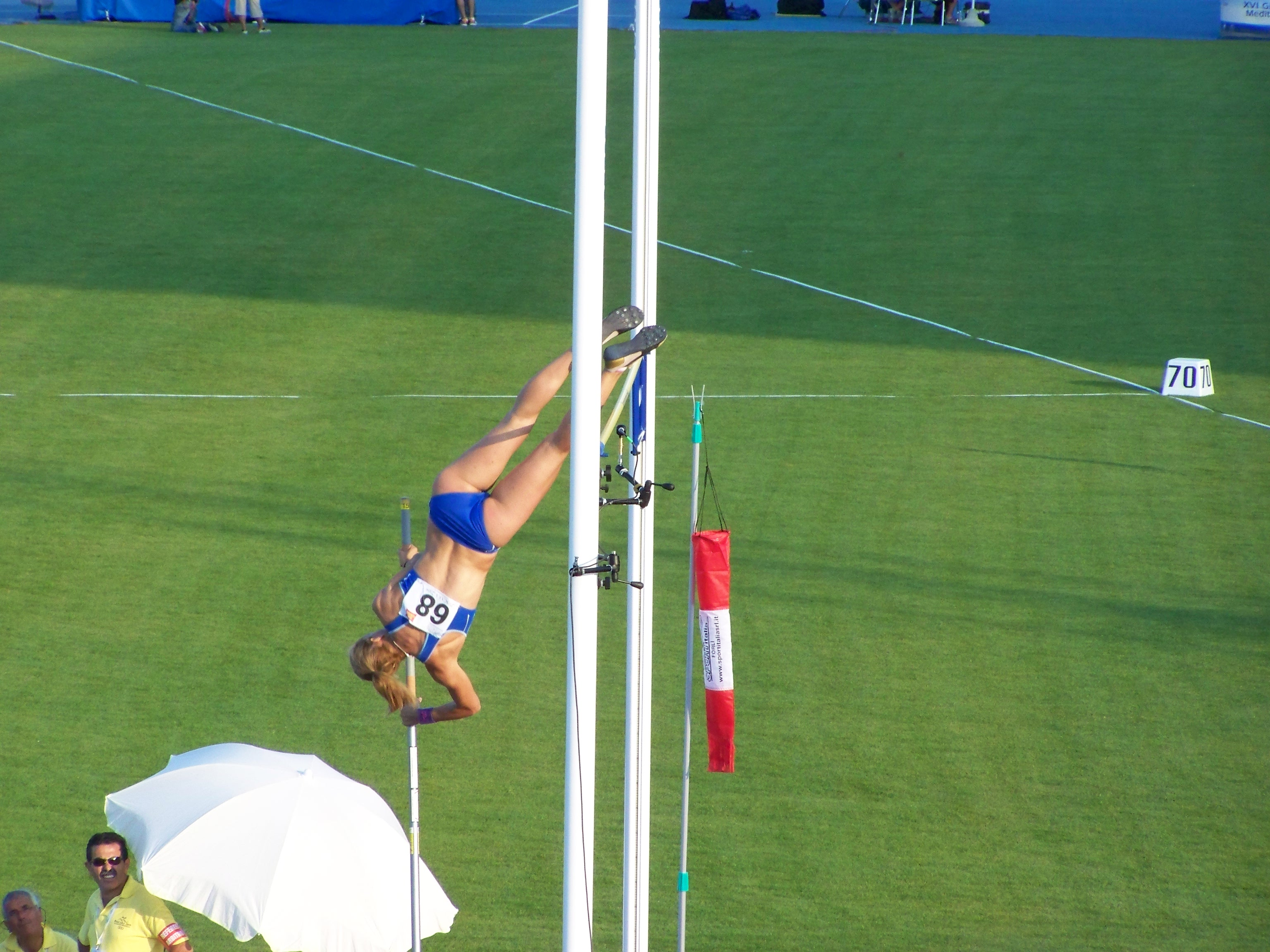 Marianna Zachariadi during the women's pole vault event at the XVI Mediterranean Games in Pescar